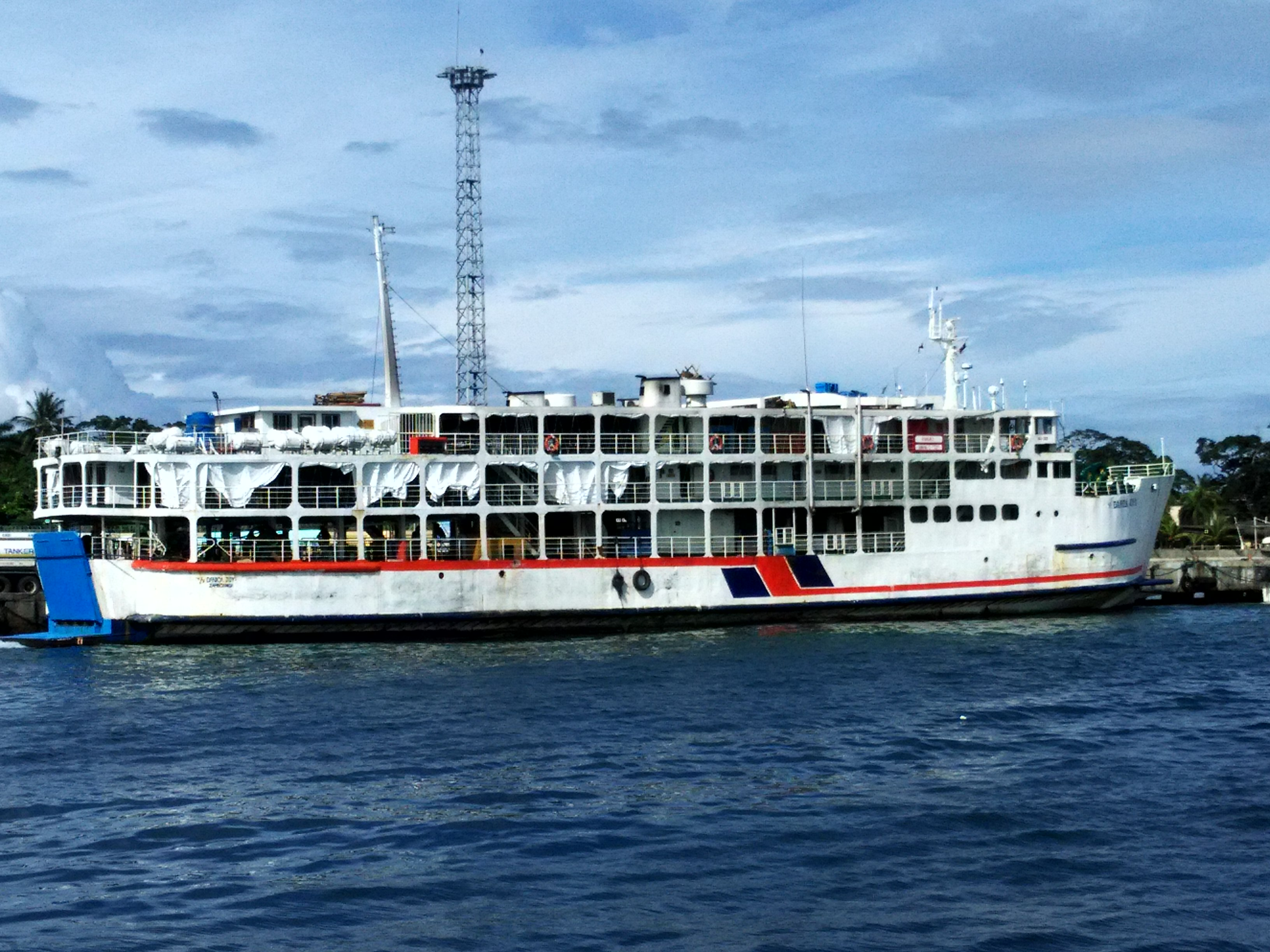 MV Danica Joy at the Zamboanga International Seaport. Filipino Ship Enthusiast Coalition